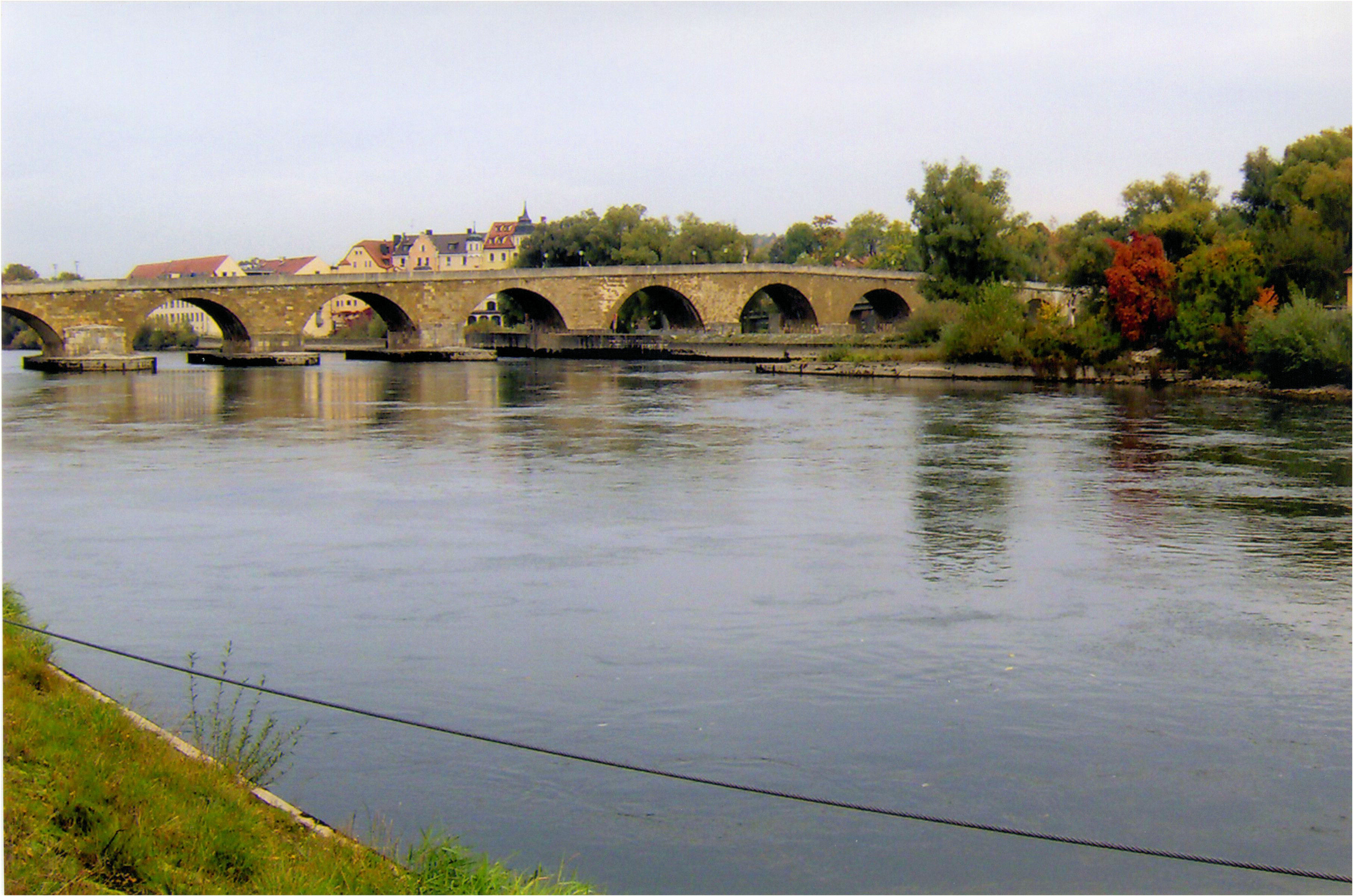 The following is the author's description of the photograph quoted directly from the photograph's Flickr page."Regensburg is one of Germany%u2019s best preserved medieval Cities. Architectural highlights include the Old Town Hall, the beautiful white and gold Old Chapel, and the Porta Pretoria, gates to an acient Roman fort built in 179 A.D The city is the capital of Upper palatinate , a bustling university town and one of Bavaria%u2019s cultural centers.The Stone Bridge over the River Donau (Danube). In the old downtown there are two side-by-side cathedrals built at different times. It is easy to see which is older, the one with the round windows. Larger arched windows are relatively new construction Built in the 1300s to replace earlier cathedrals, Regensburg Cathedral (Dom St. Peter) is the finest Gothic building in Bavaria. Its harmonious exterior, alive with interesting medieval sculptures, has recently been fully cleaned. Inside are even more sculptures along with an extensive collection of medieval stained glass. "